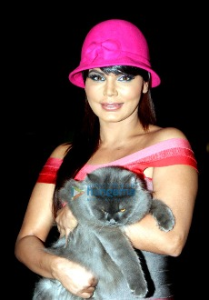 Rakhi Sawant at the premiere of 'Janleva 555'